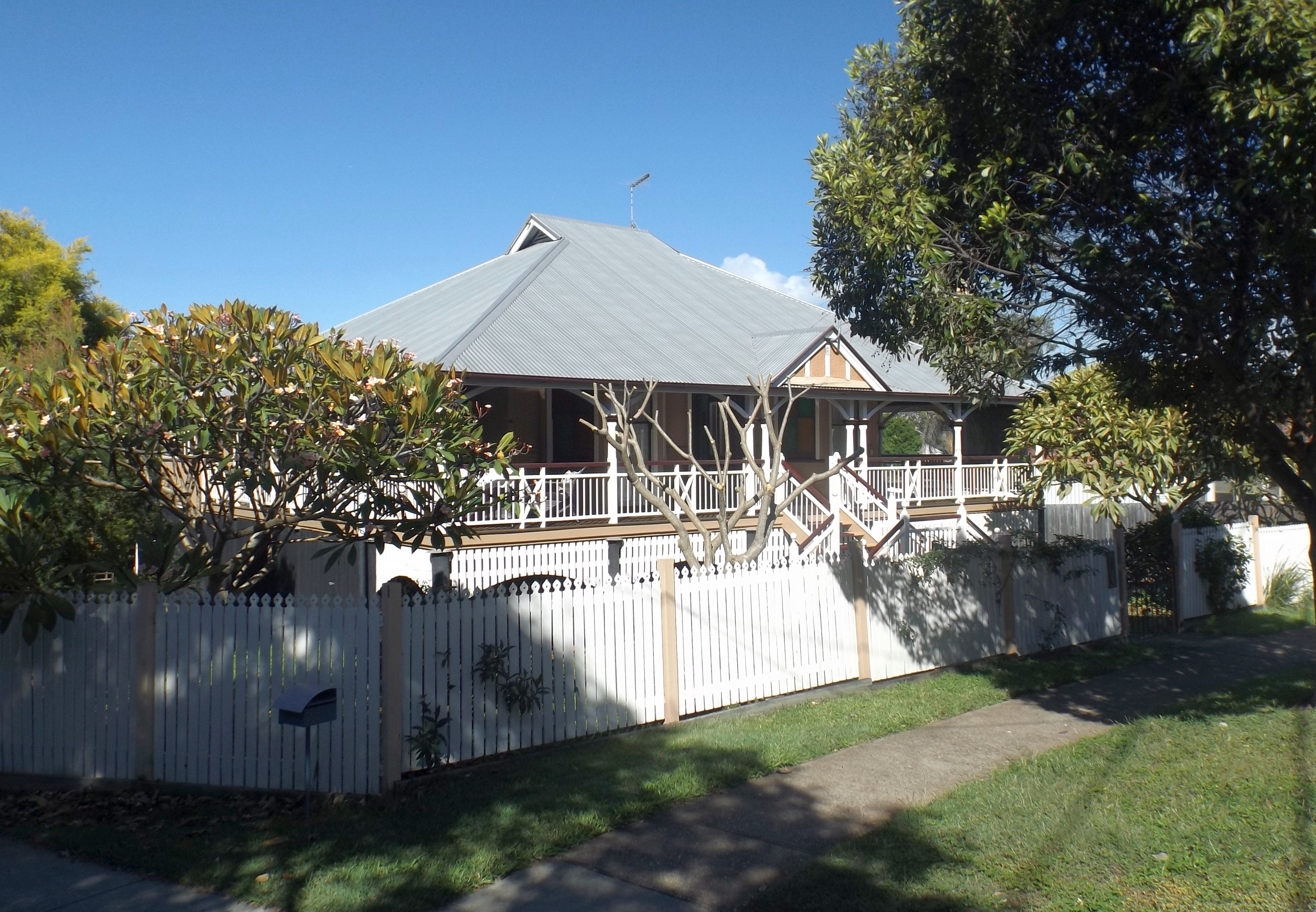 Photo of Michael Gannon residence at Manly, Brisbane, Queensland, Australia.